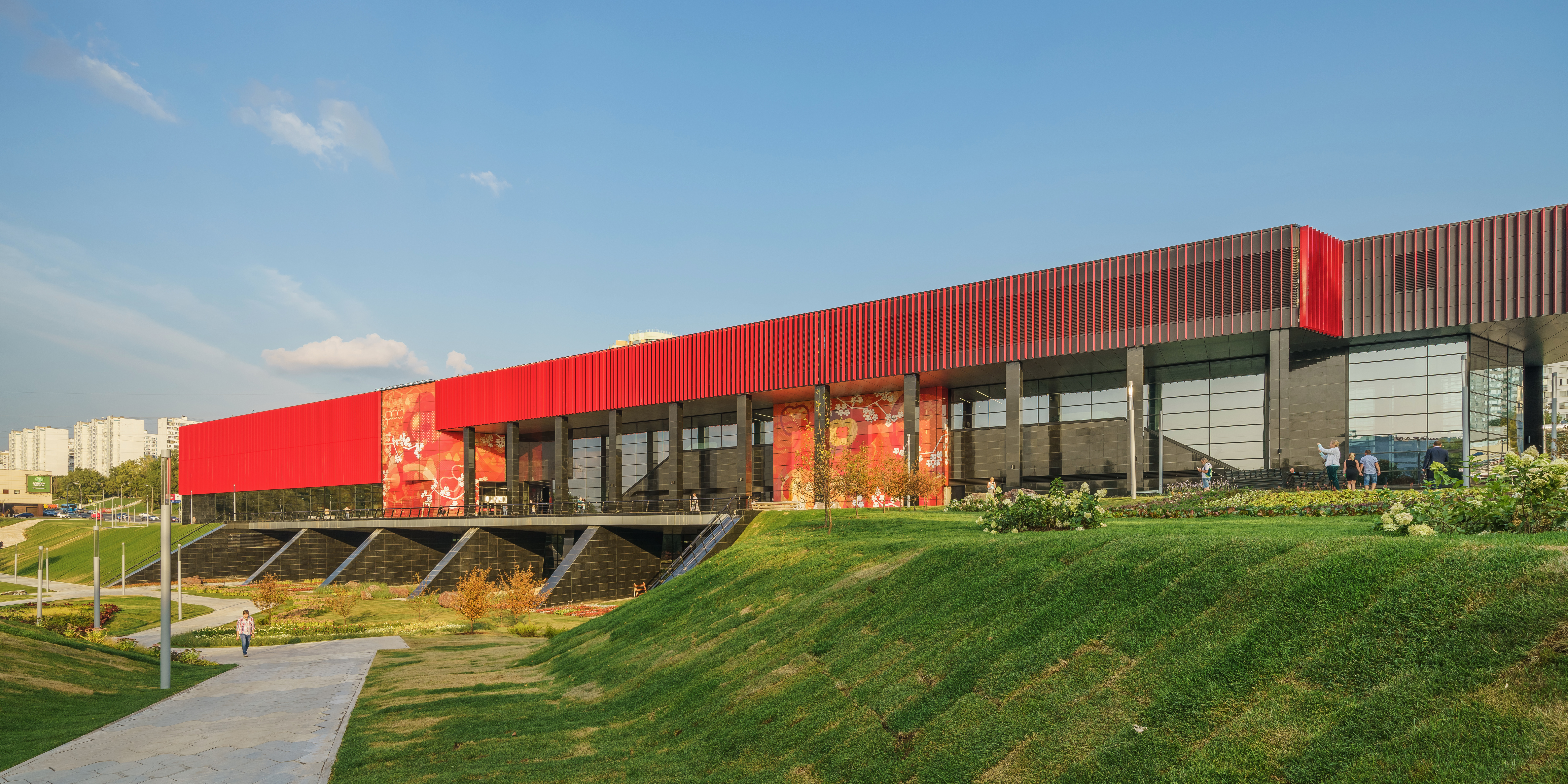 Overground view of Michurinsky Prospekt (KSL) metro station in Moscow, Russia